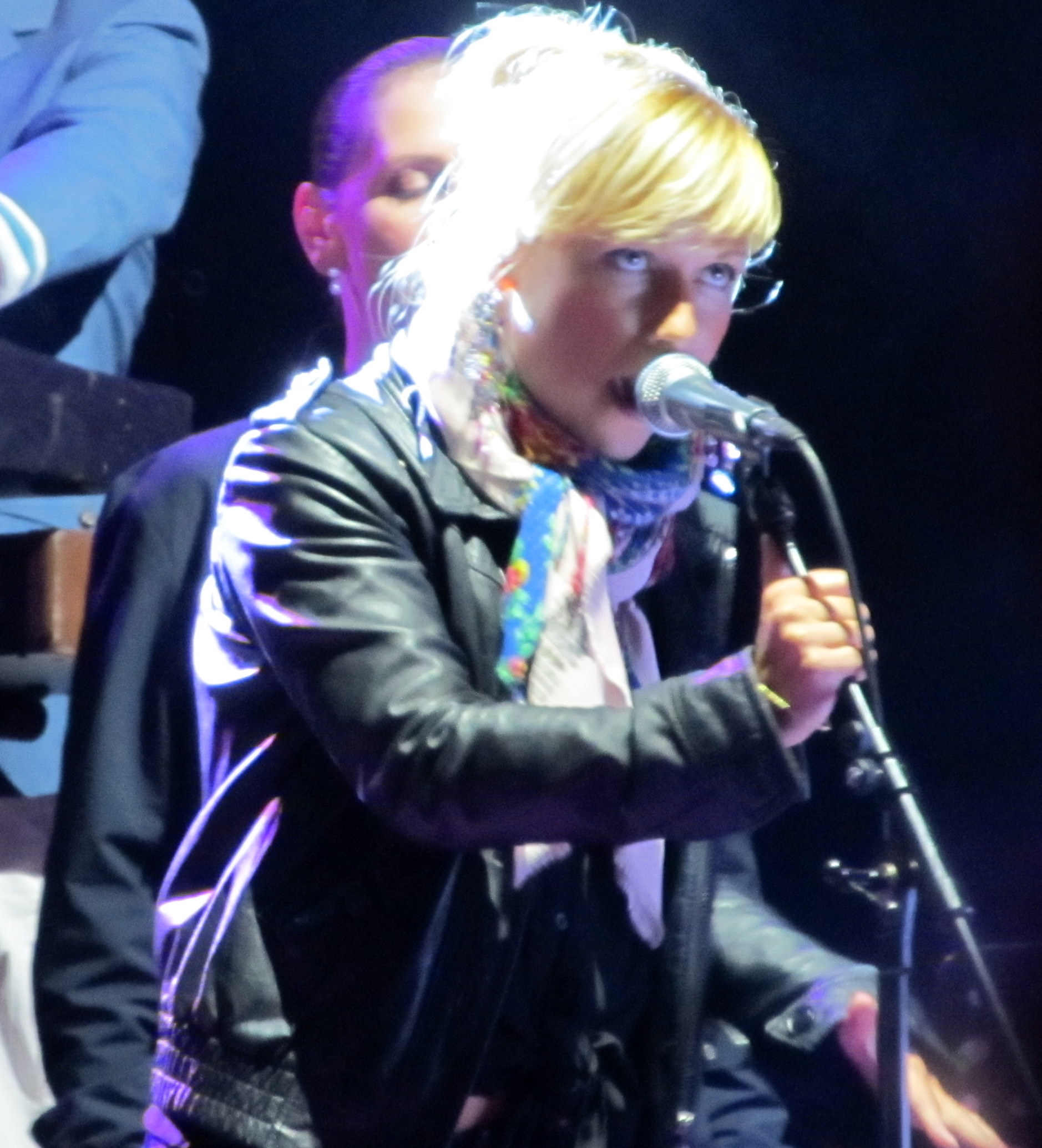 Lenna Kuurmaa performing at Singer Vinger's tour "Turistina sündinud" in Tartu